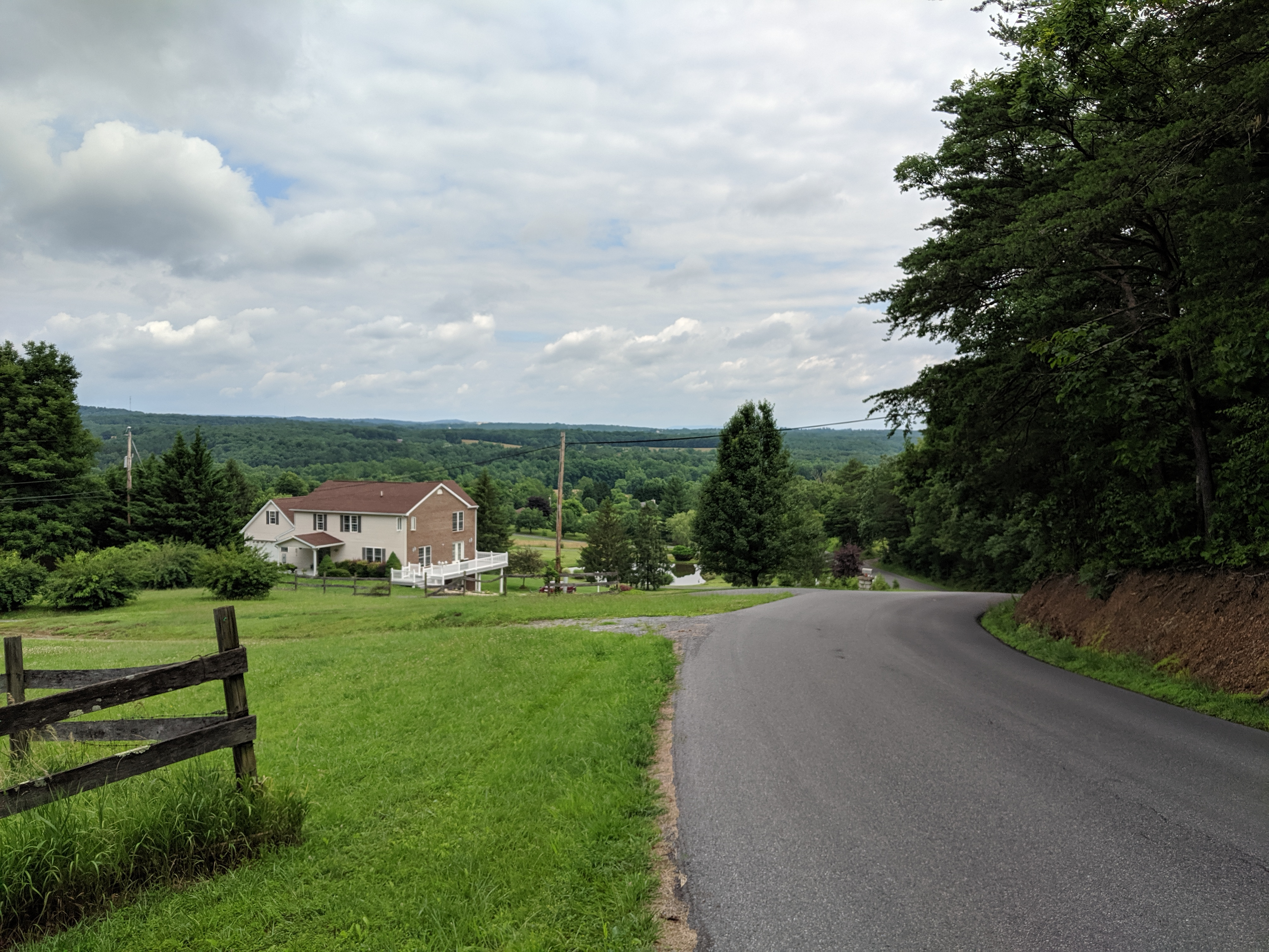 Duckwall, West Virginia viewed from Highland Ridge Road facing north, between Mountain Run Road and Sleepy Creek.